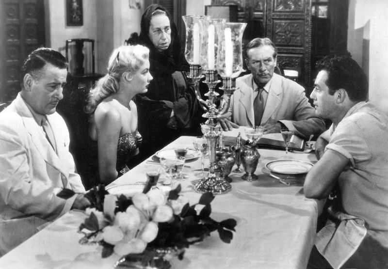 L. to R. : Tom Conway, Barbara Payton, Gisela Werbisek, Paul Cavanagh, and Raymond Burr in Bride of the Gorilla - cropped screenshot